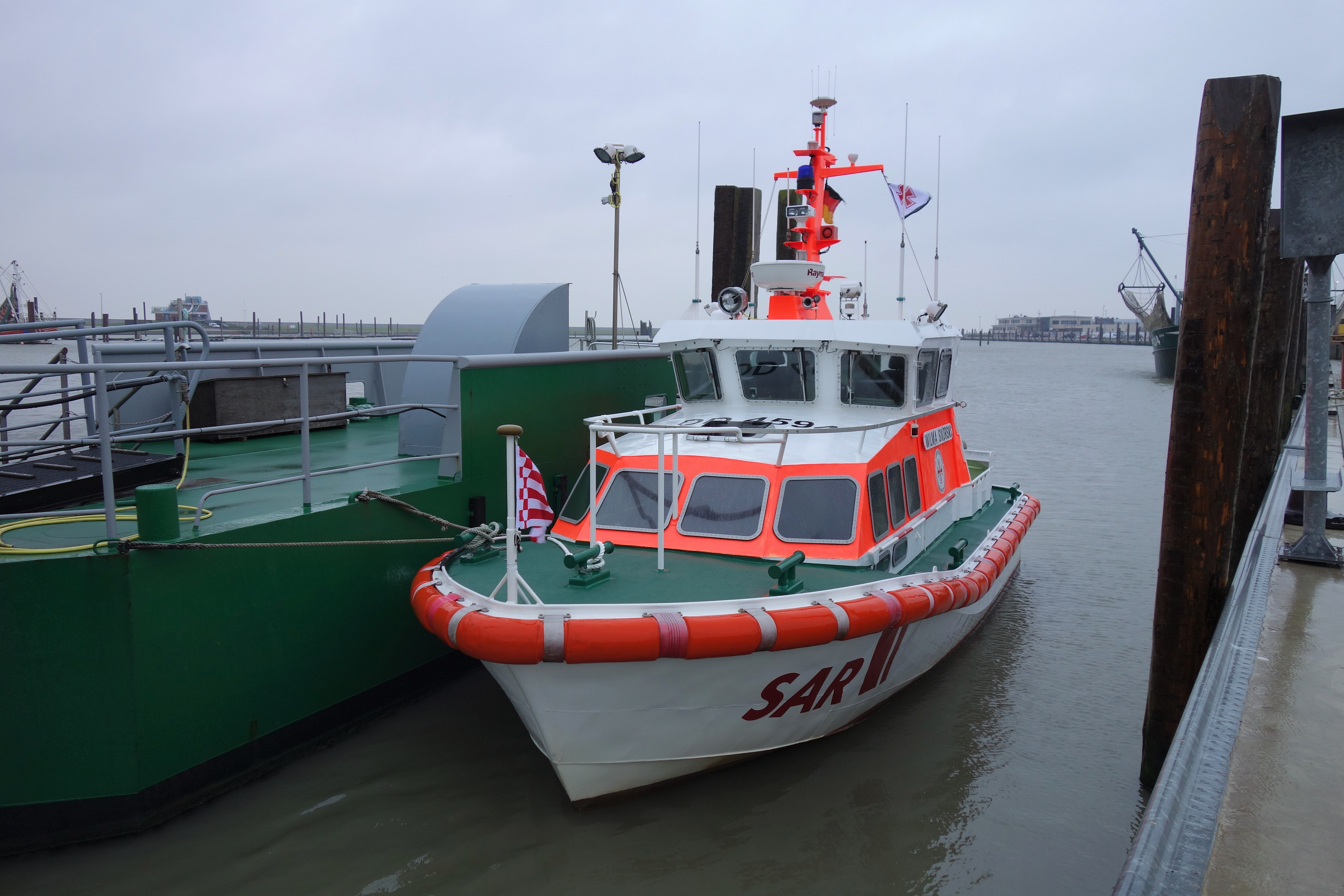 The rescue boat Wilma Sikorski is now based in Norddeich harbour